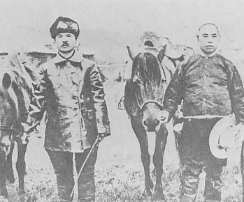 Shintaro Nakamura and Entaro Isugi